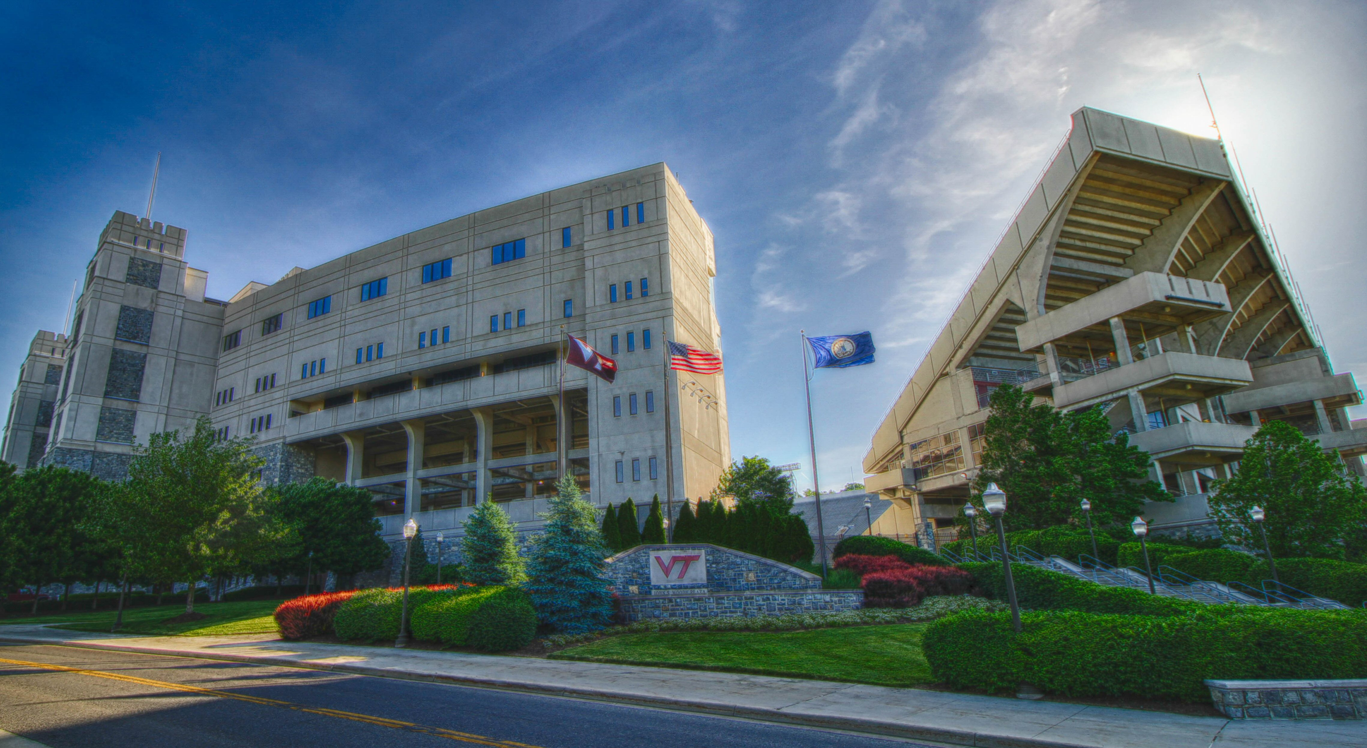 Lane Stadium southwest corner from Beamer Way, May 2015